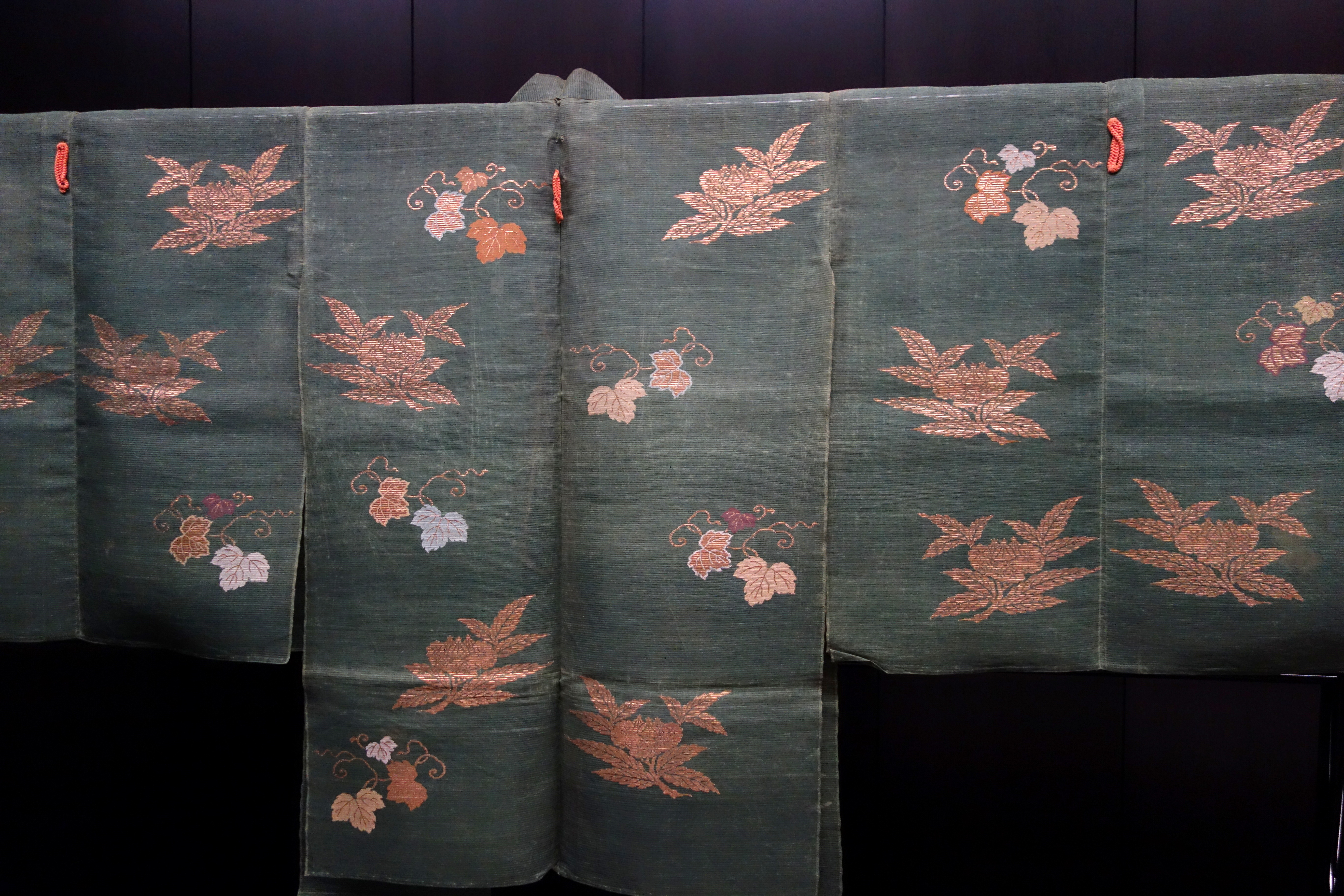 Exhibit in the Tokyo National Museum, Tokyo, Japan. This artwork is old enough so that it is in the public domain.